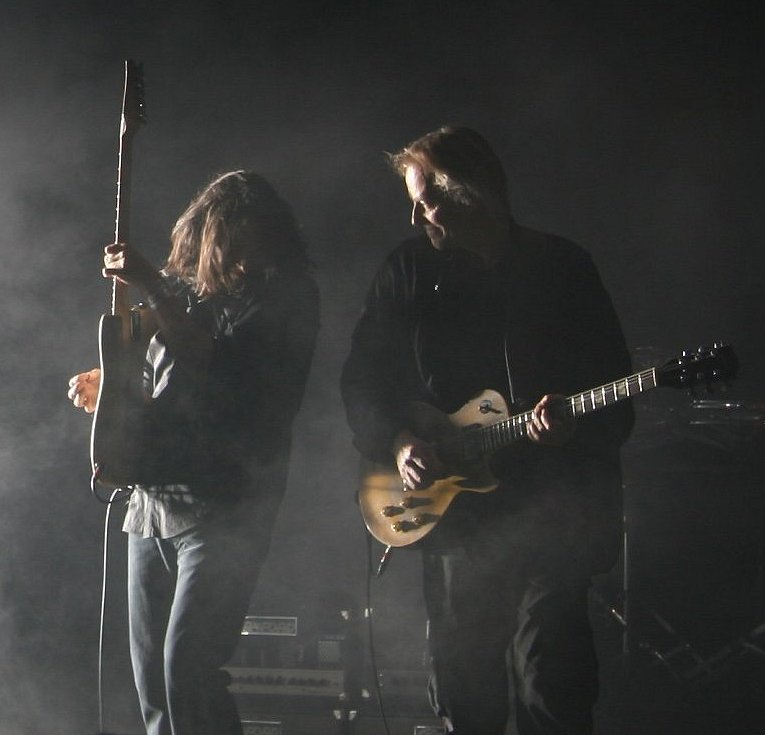 Cropped detail version of Dave and Snowy. I love Snowy's expression here. Roger Waters O2 Arena, London Sunday, May 18, 2008